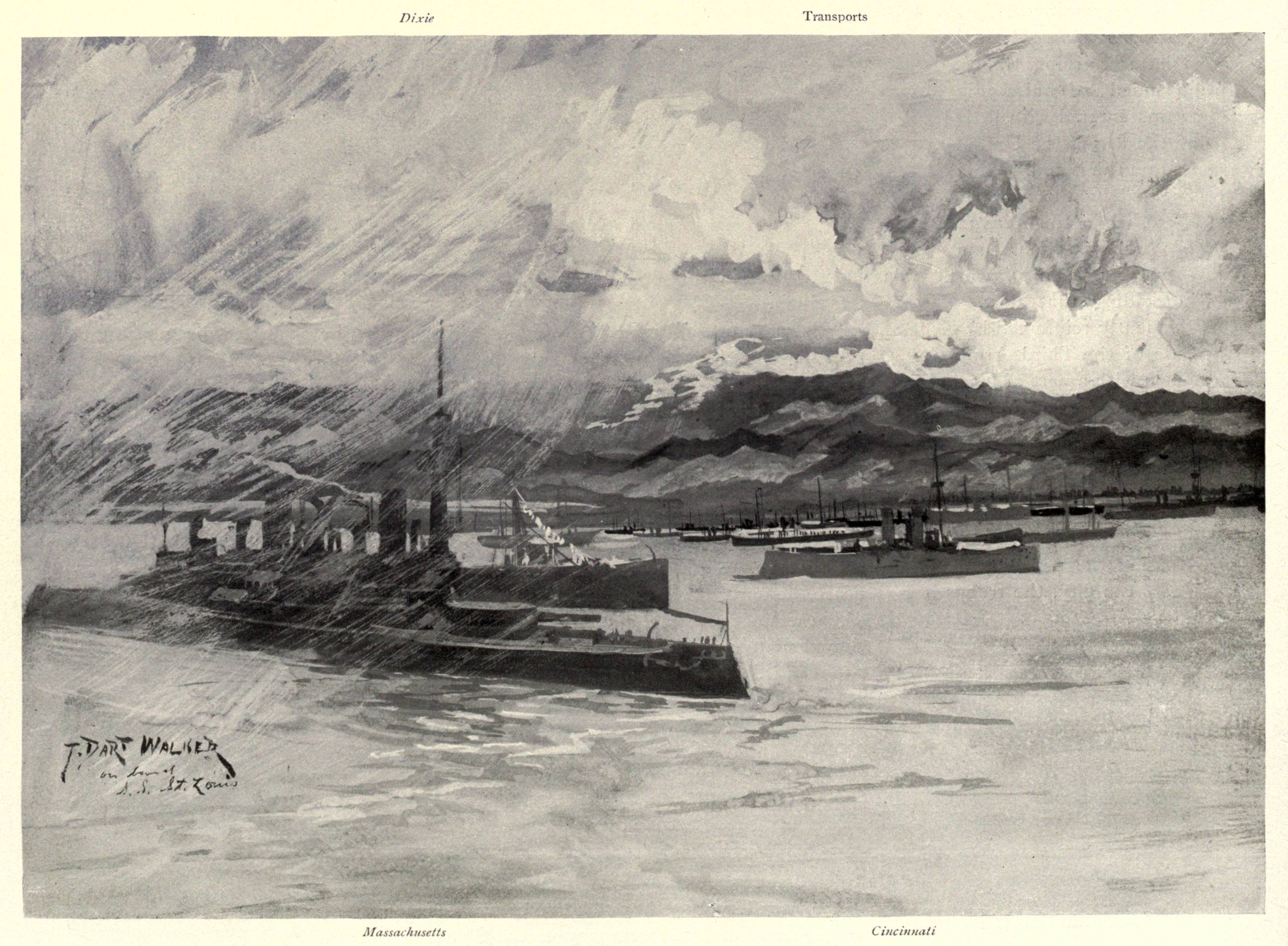 Troopships and convoy at Playa de Ponce, Puerto Rico. From p. 394 of Harper's Pictorial History of the War with Spain, Vol. II, published by Harper and Brothers in 1899.